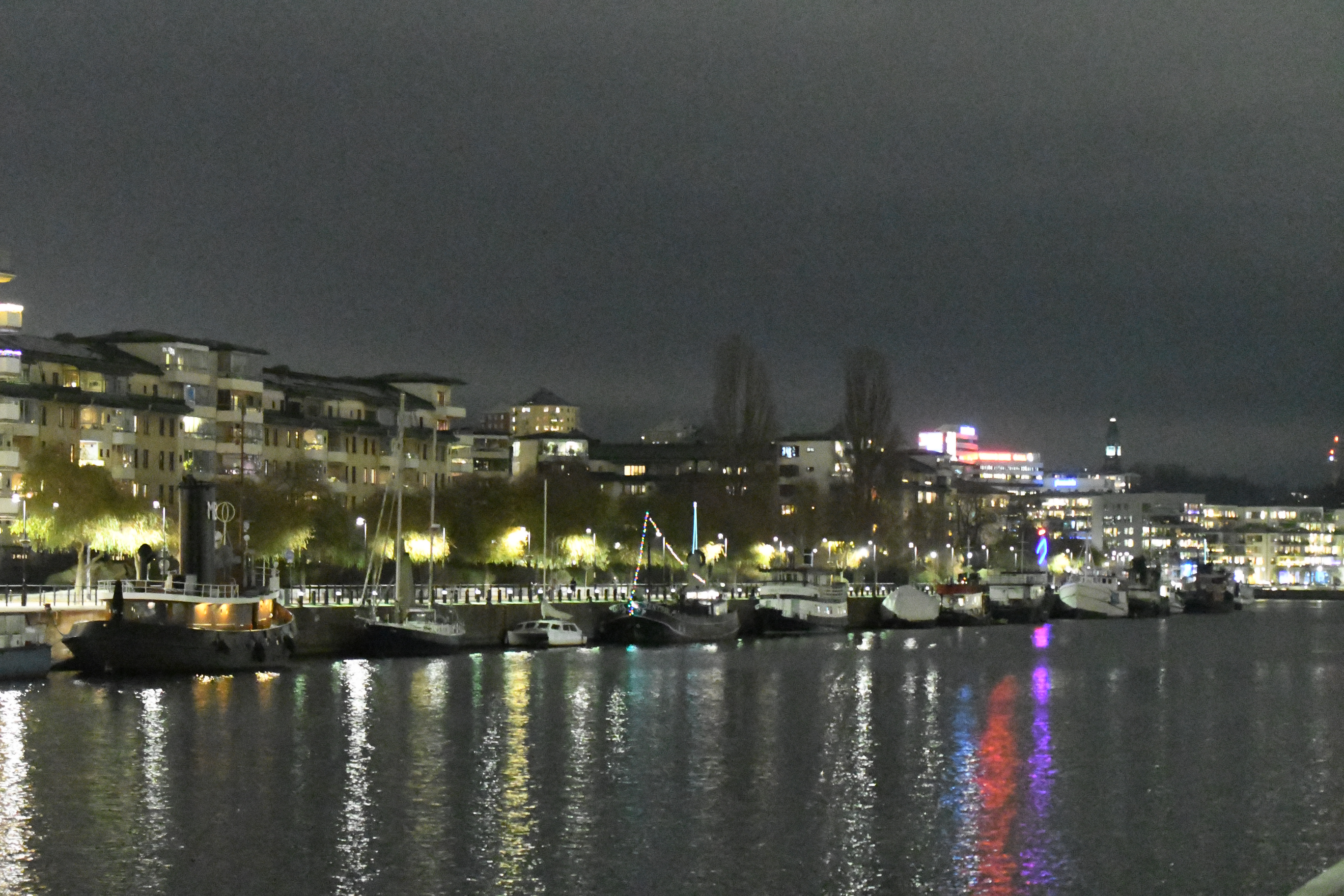 Norra Hammarbyhamnen, Stockholm, 2018